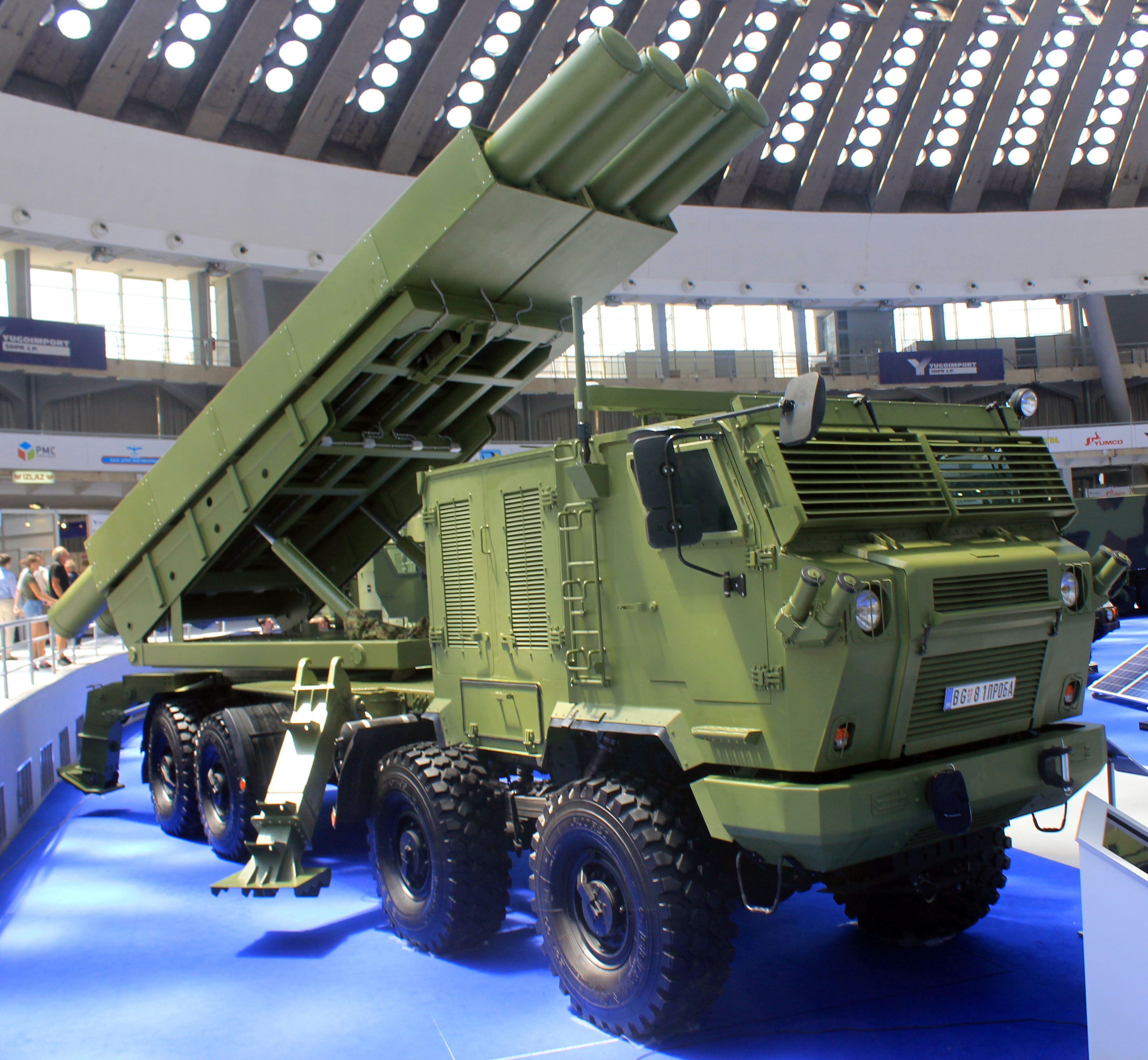 New Serbian modular self-propelled multiple rocket launcher Šumadija developed by Yugoimport SDPR on display at Partner 2017 military fair.